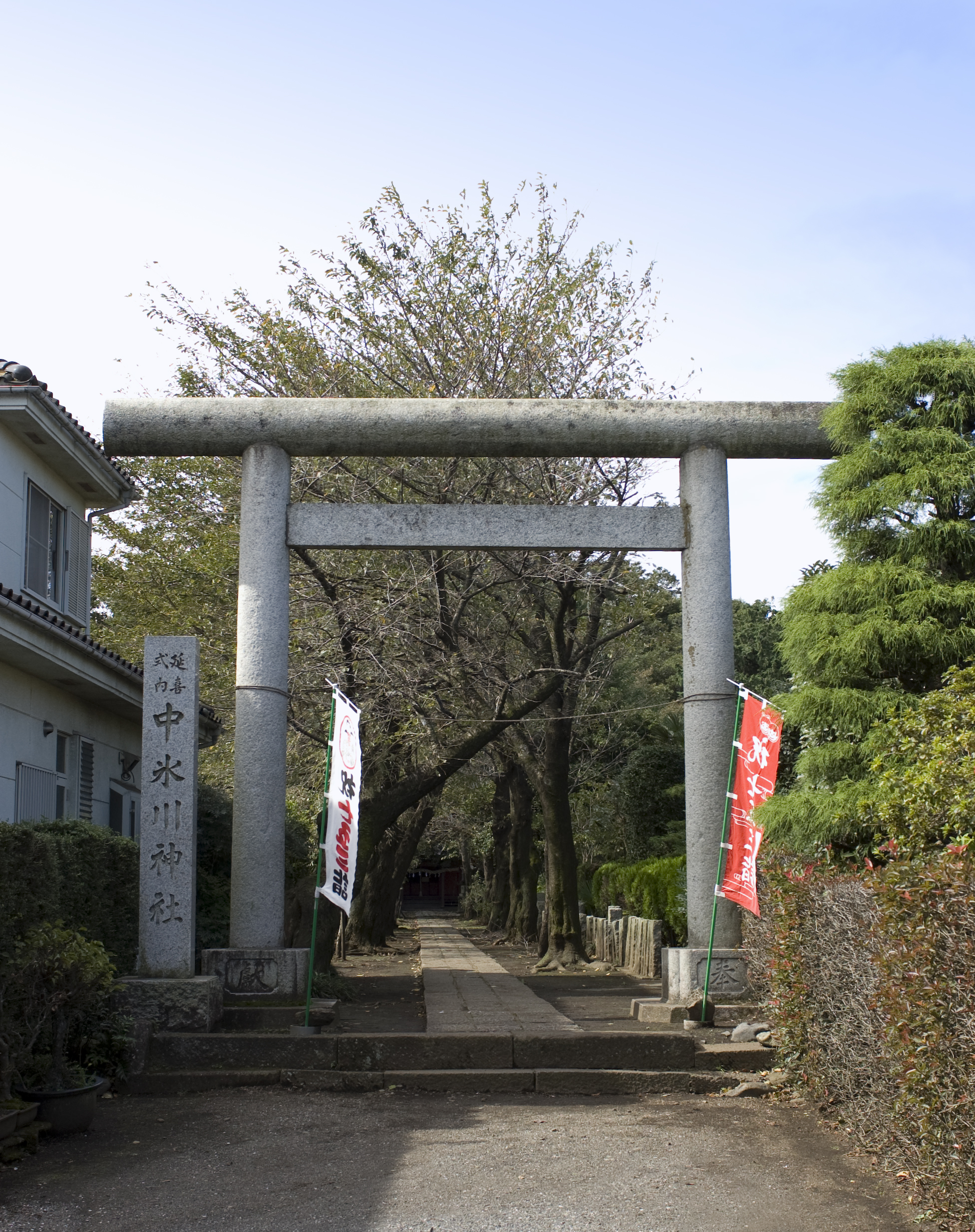 Naka-Hikawa-shrine in Mikajima, Tokorozawa, Japan. See the map.